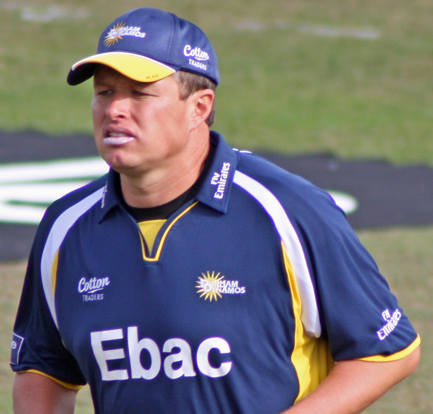 Mitchell Claydon in the field at the County Ground, Taunton during Durham's Clydesdale Bank 40 semi-final against Somerset.